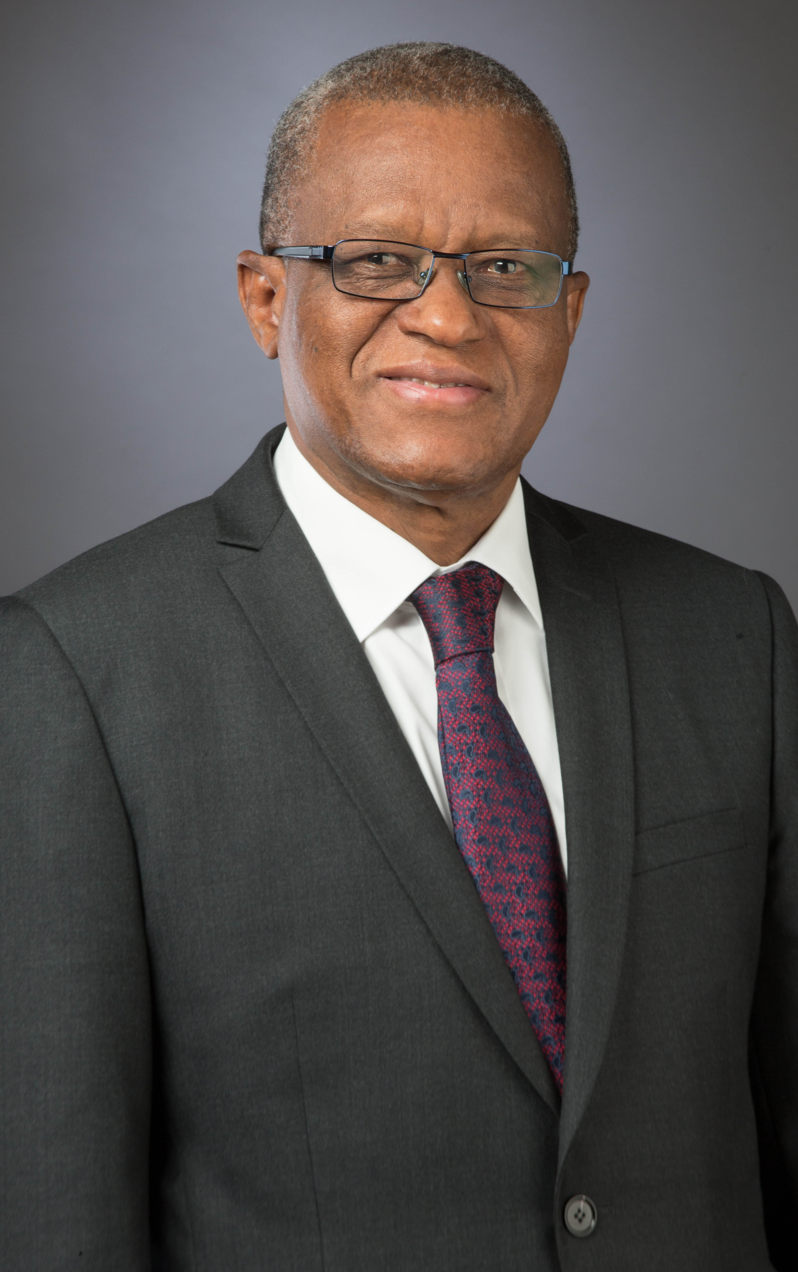 Maman S. SIDIKOU Permanent Secretary of the G5 Sahel